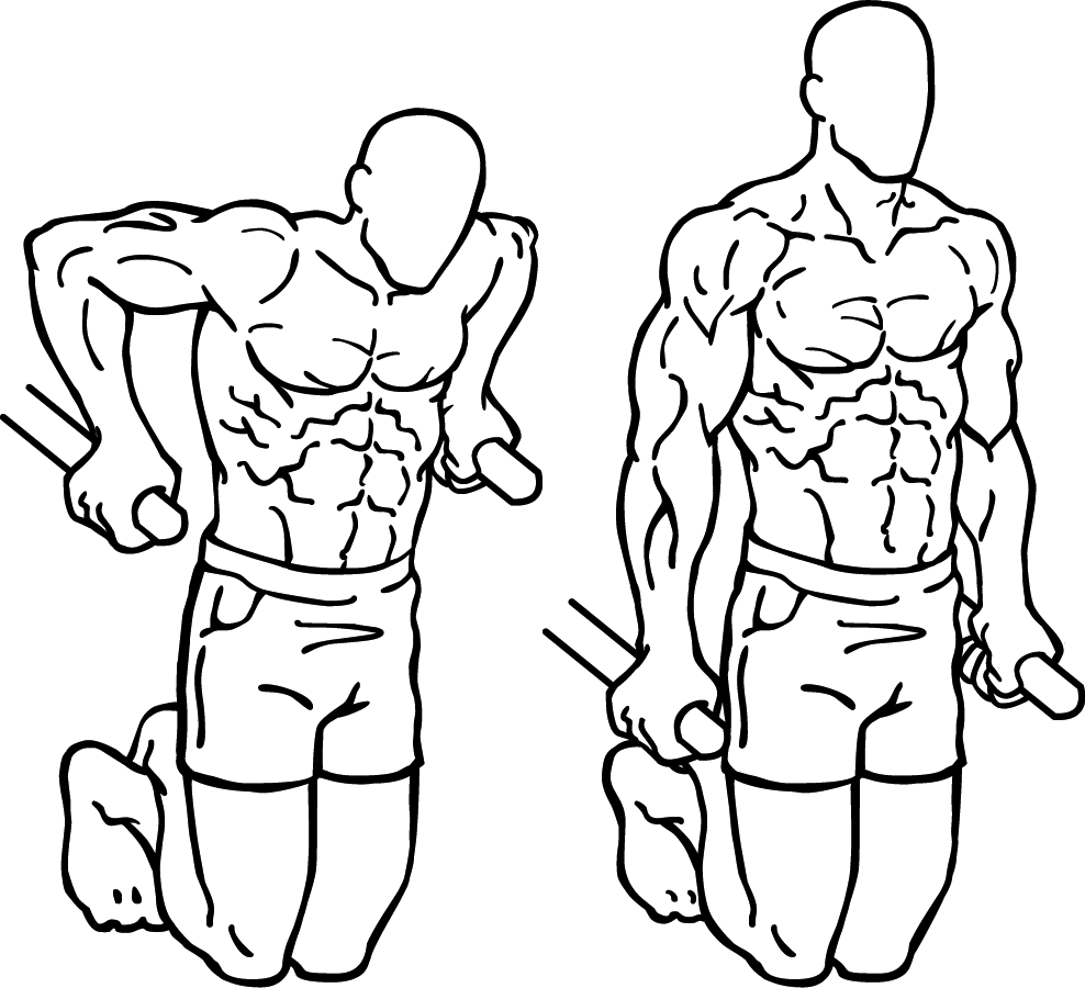 Dips released under creative commons by Everkinetic